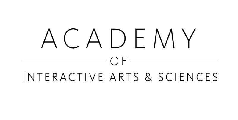 The logo for the Academy of Interactive Arts & Sciences.